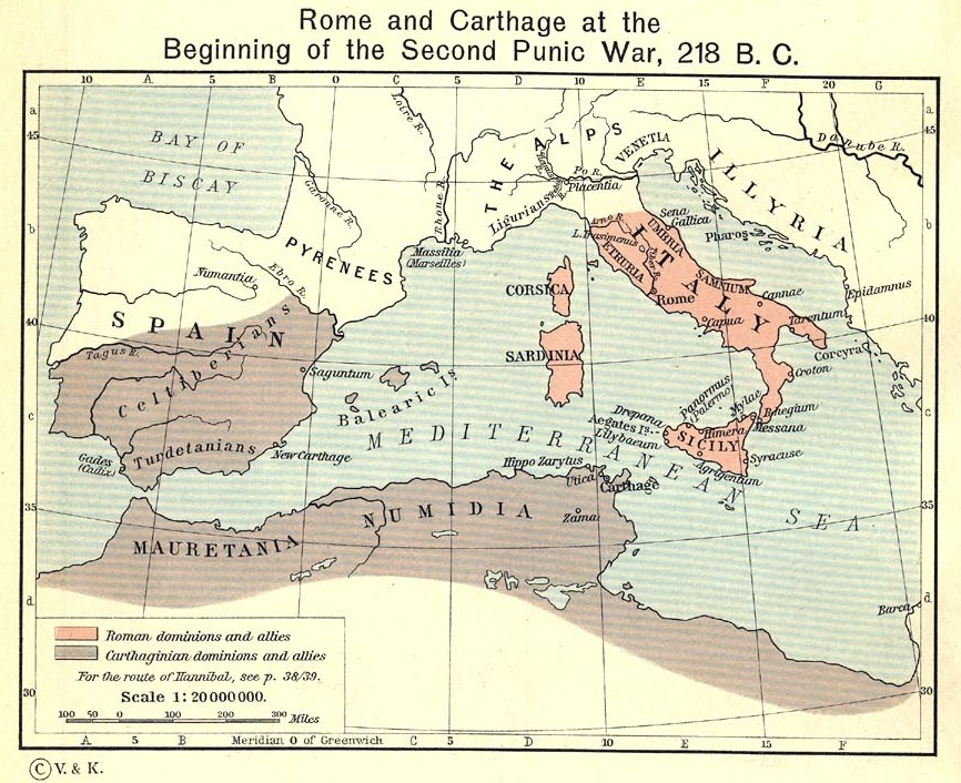 Rome and Carthage at the Beginning of the Second Punic War, 218 B.C. [1] Historical Atlas by William R. Shepherd, 1911. Courtesy of the University of Texas Libraries, The University of Texas at Austin. From The Historical Atlas by William R. Shepherd, 1911 edition